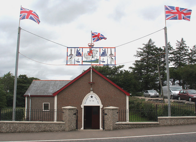 Ballinrees Orange Hall Ballinrees Orange Hall is on the Windyhill Road between Coleraine and Limavady Co.Londonderry.